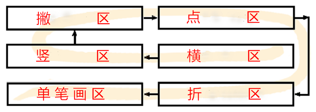 This is a keyboard partition of Erbi input mathod(二笔输入法), which is a Chinese input mathod. The work is made by myself.